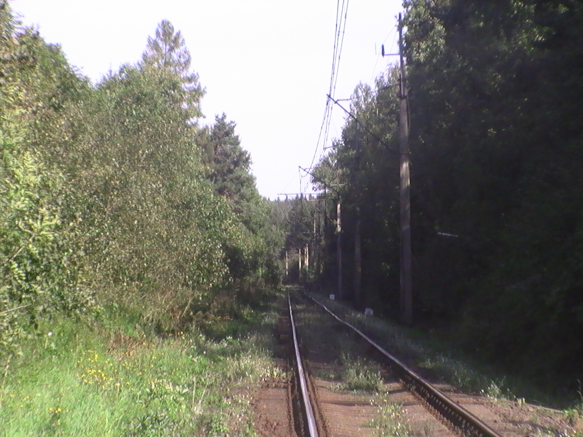 The single track part of the 274 no. railway.